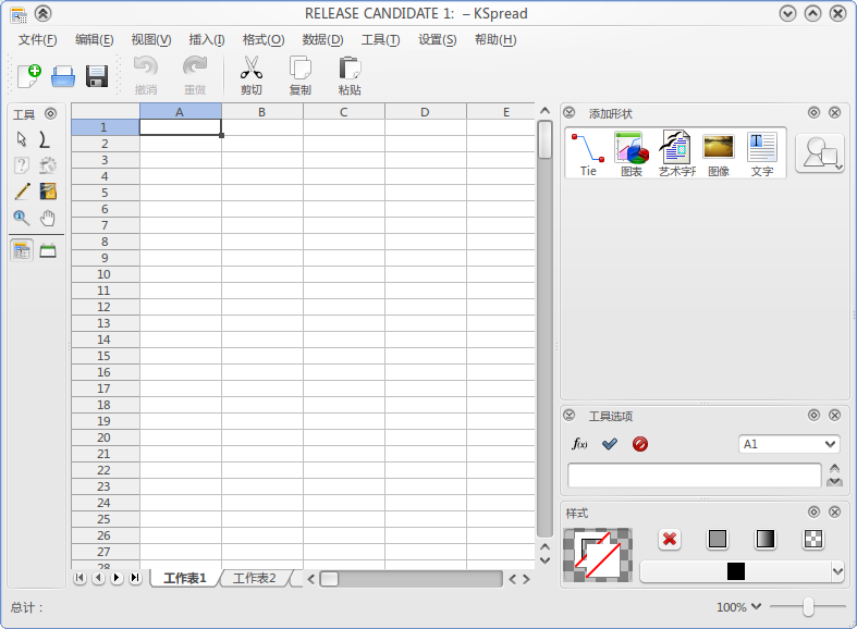 KSpread-2.0-screenshot